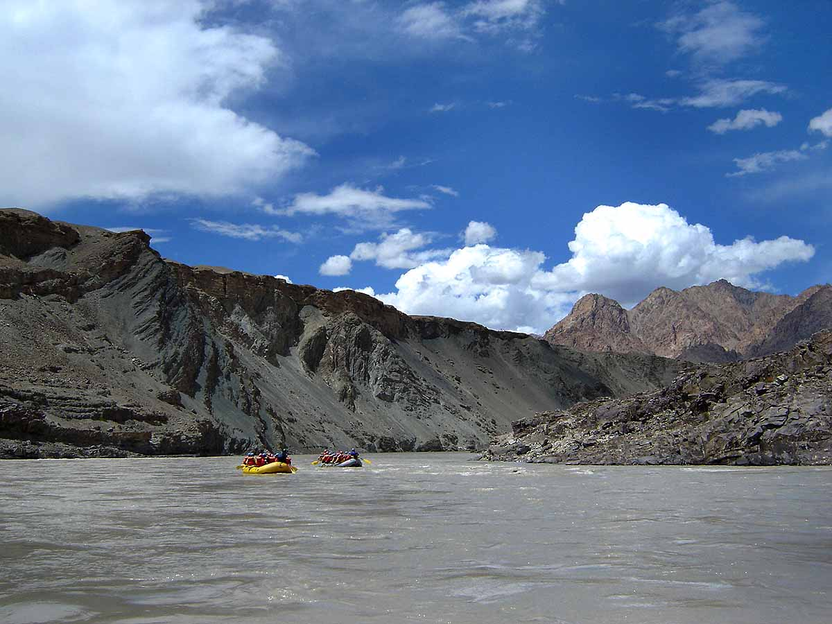 River rafting on the Zanskar in the Himalayas.Ladakh: Zanskar River Rafting